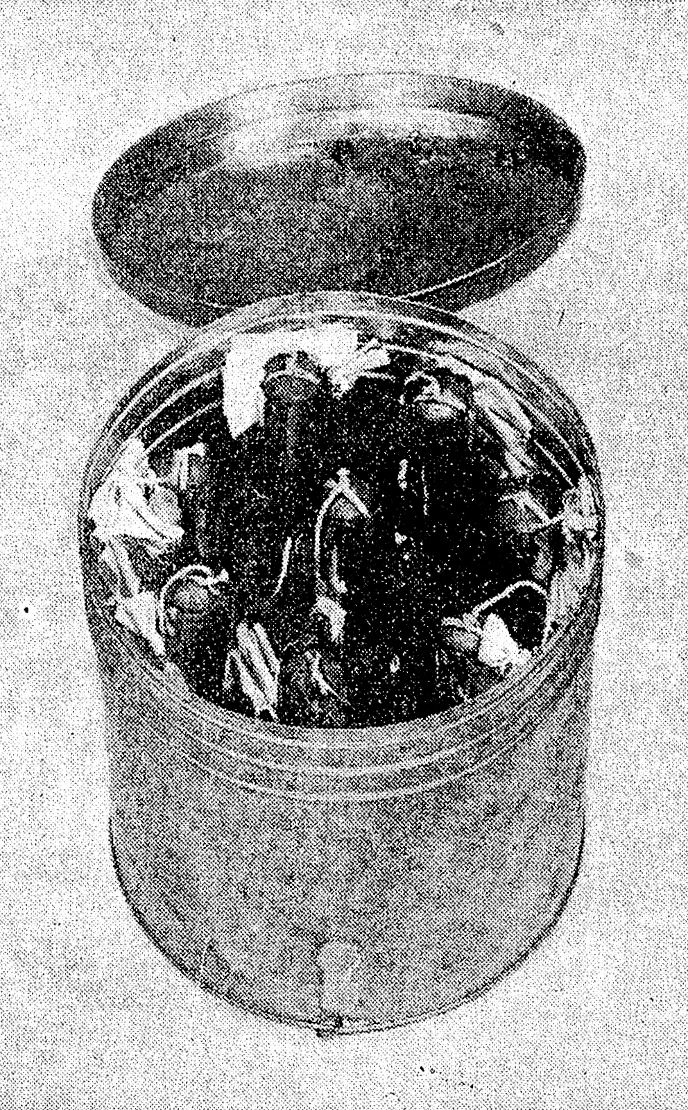 Image of phosphorous bottles dropped from free flying balloons. Detail from: Civil Defence Training Pamphlet No 2: Objects Dropped From The Air (3rd Edition). Issued by the Ministry of Home Security. This training pamphlet described some of the objects which could be found on the ground after and air-raid, including certain items which, though not of enemy origin, may be mistaken for hostile weapons, and others that may drop from the air at any time.